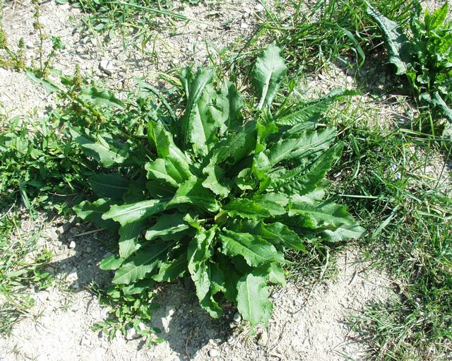 (en)(Gb)Great Water Dock (Rumex hydrolapathum), a photography originating of the internet site The accord of the autor, H. Brisse, is here. (fr) Patience aquatique (Rumex hydrolapathum), une photographie issue du site internet L'accord de l'auteur, H. Brisse, se situe ici. (it)Rómice Tabacco di palude ; (de)Riesen-Ampfer ; (es)Paradella de canyissar ; (nl)Waterzuring